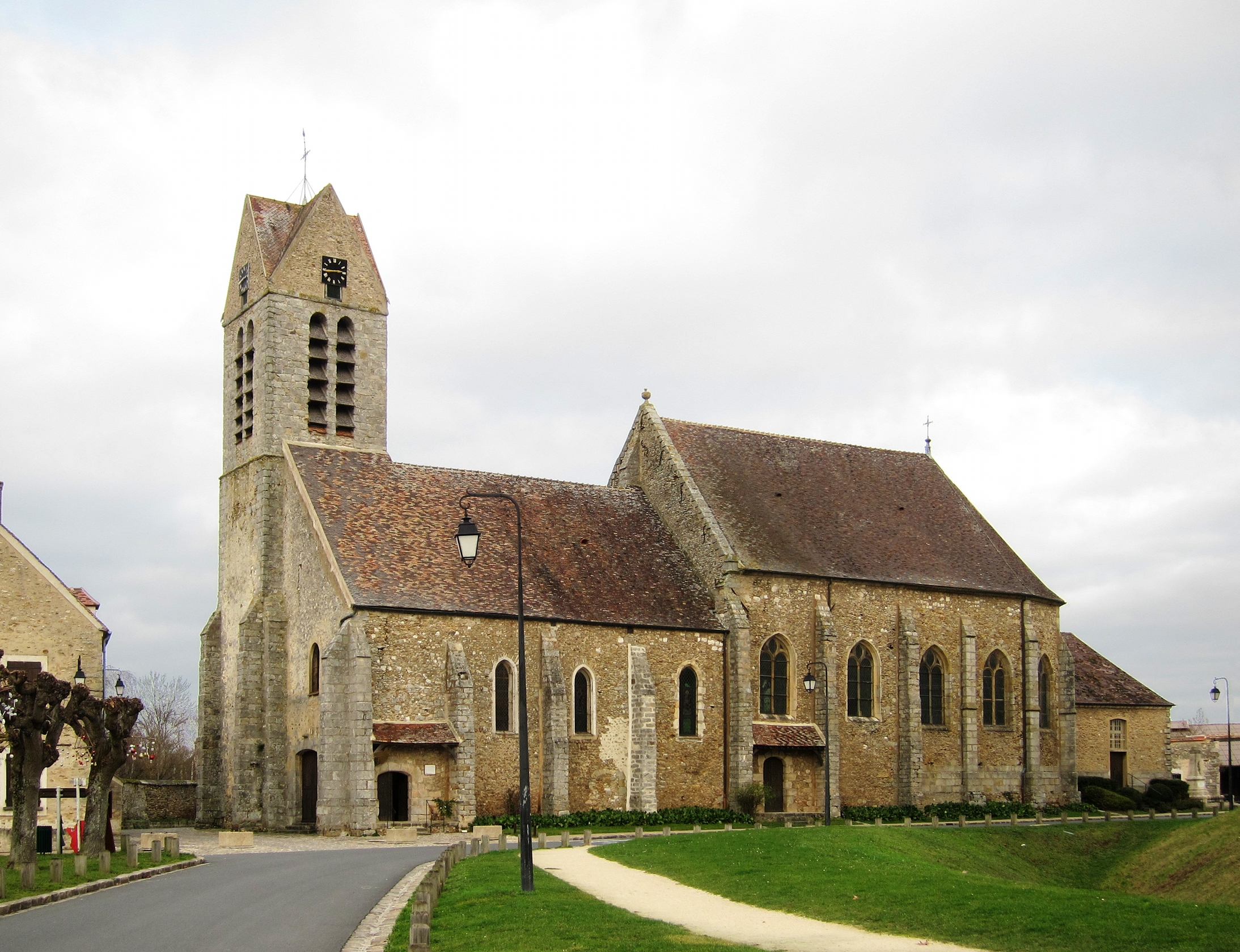 Saint-Maurice church in Blandy-les-Tours, Seine-et-Marne, France.